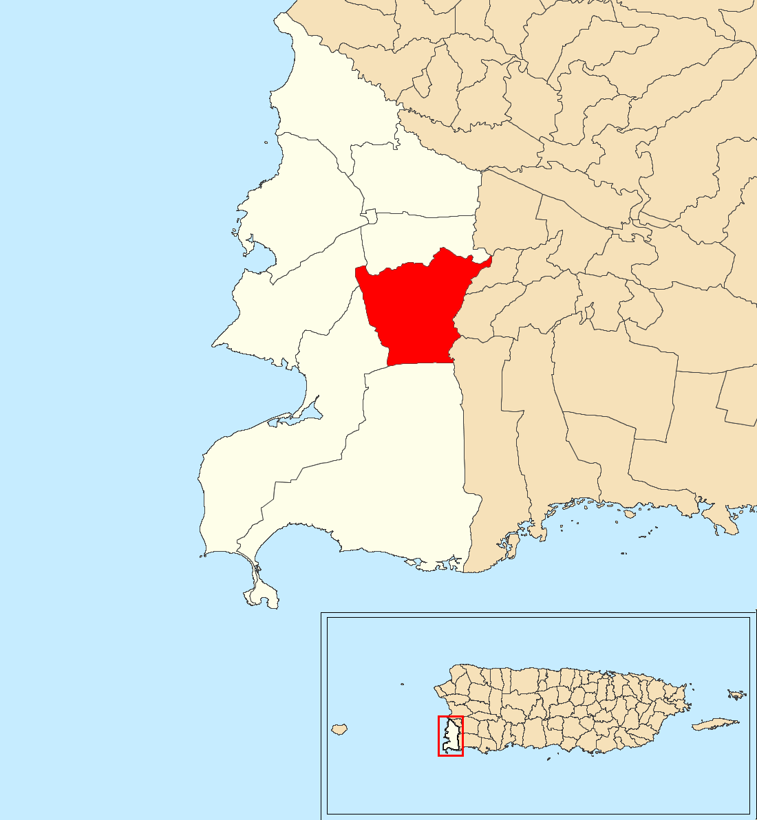 Llanos Tuna, Cabo Rojo, Puerto Rico locator map